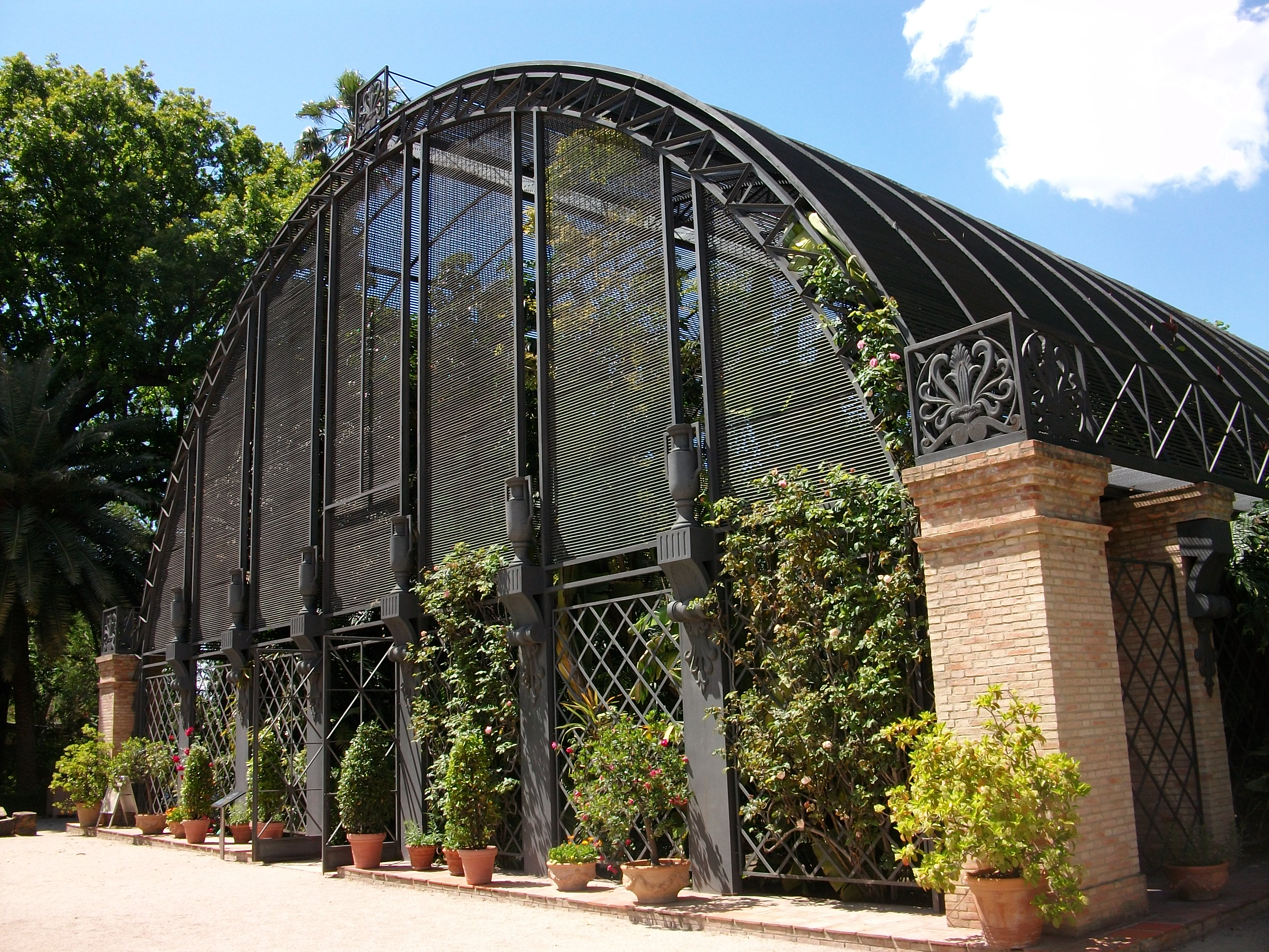 Botanical garden of València.